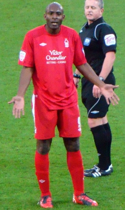 Dele Adebola 20/11/10 Cardiff V Nottingham Forest, Championship, Cardiff City Stadium, Cardiff, Wales